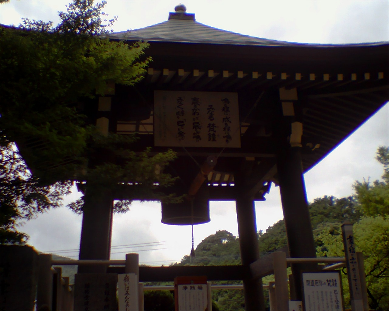 This photograph is the bell (ja : 梵鐘) on a temple named 'Akashidera (Akashi-dera , Akashiji , Akashi-ji , ja : 明石寺)' which in Sasaguri,Fukuoka,Japan and one of a pilgrimage of eighty-eight temples on the "Sasagurishikoku"".